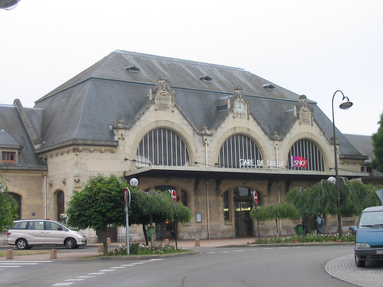 Train station at Dreux